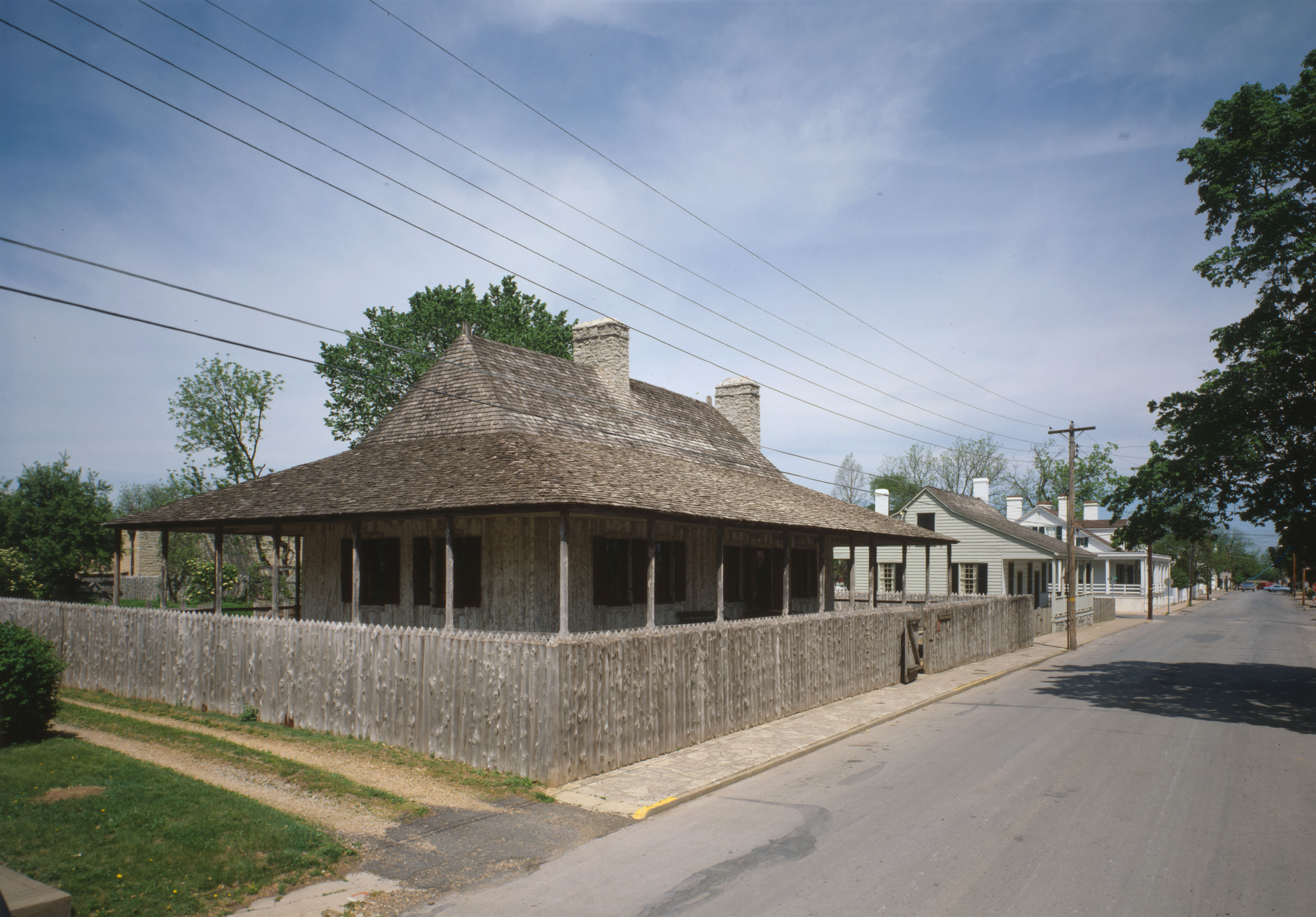 A photograph showing the Bolduc House. To the right is the Jean Baptiste Valle House; to the right of that is the Commandant’s House. The Bolduc House was built in 1740 by Peter Bolduc, a very prominent merchant in Ste. Geneviève, Missouri. The house, along with the rest of the village, was moved to its present location on higher ground in 1785 to escape flooding from the Mississippi River.